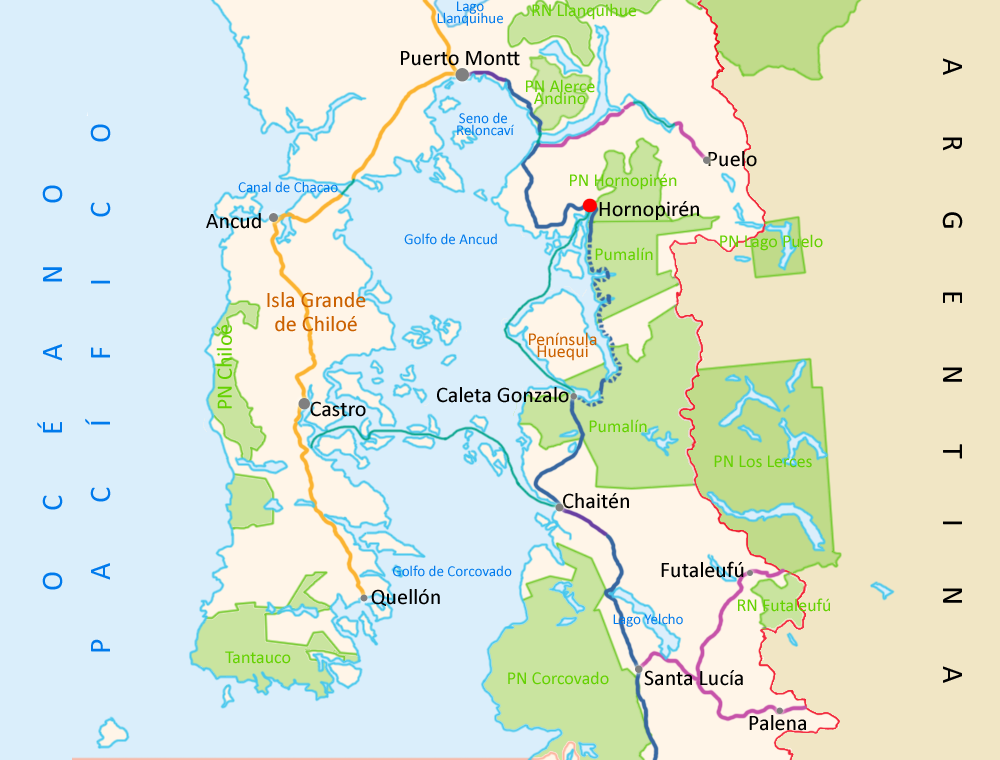 Location of Hornopirén. Made by me and based on Image:Carretera Austral.png made by User:B1mbo